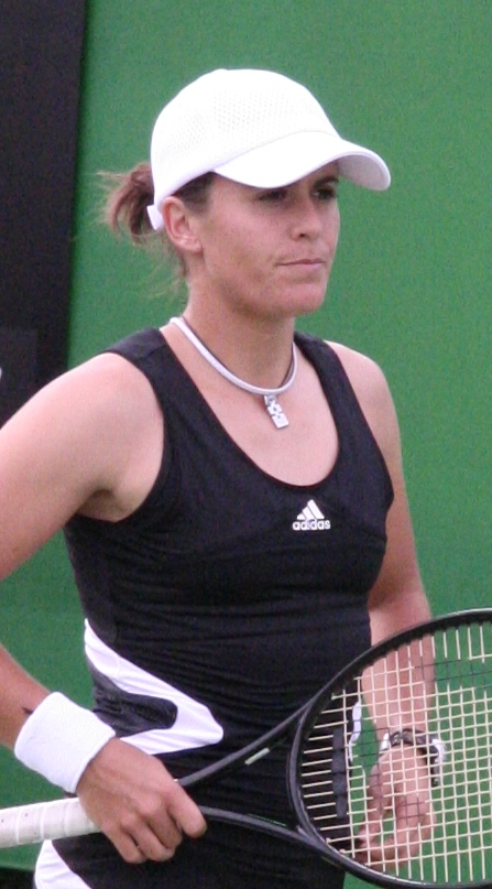 Anabel Medina Garrigues at the 2007 Australian Open, during her first-round womens double match partnering Sania Mirza (they were seeded 10th).